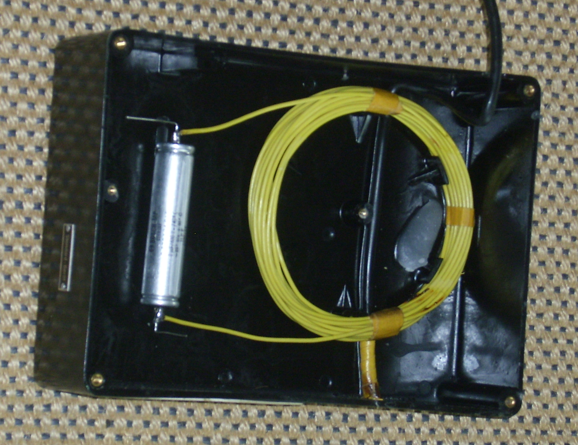 Phylax Orginal